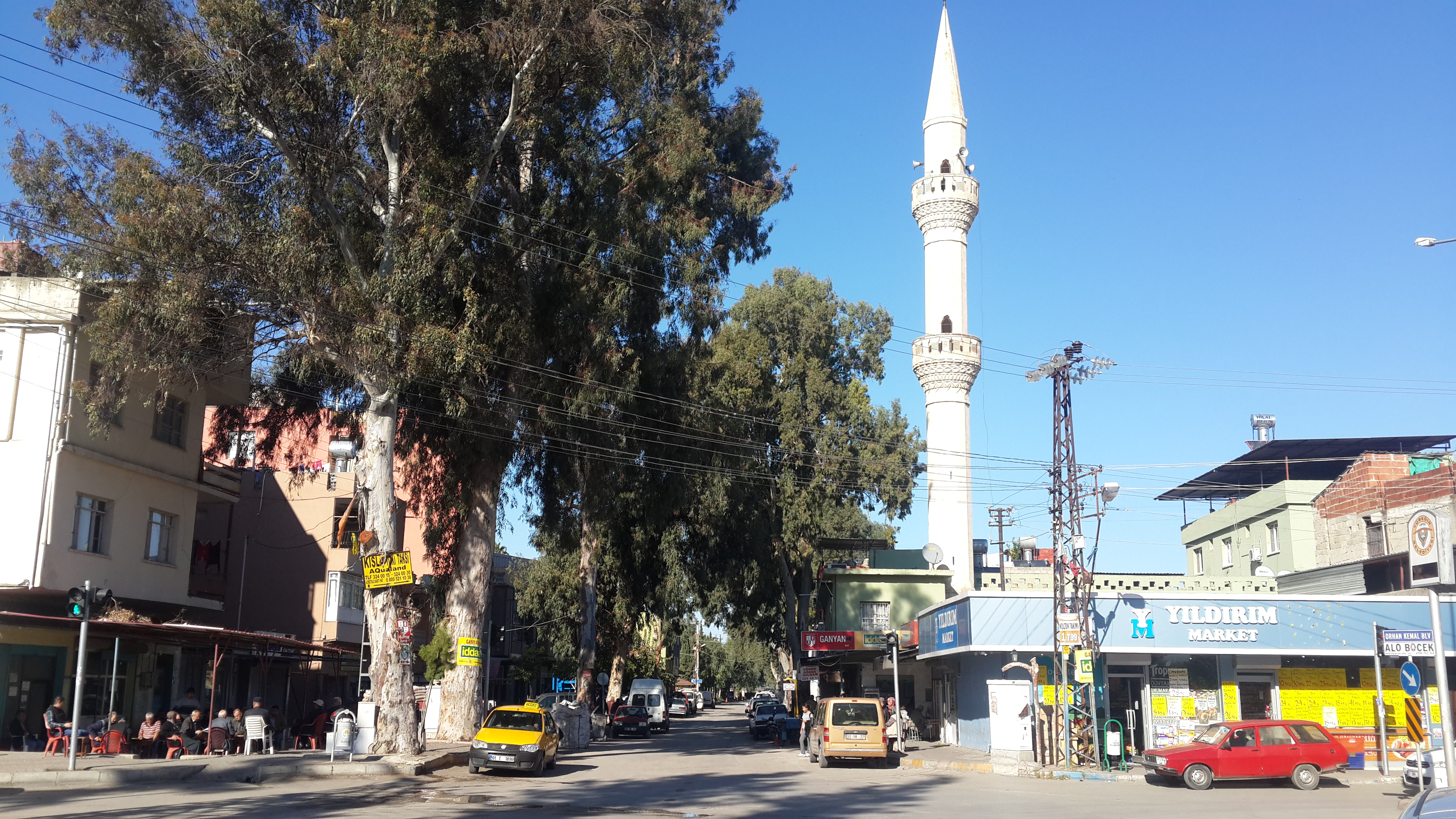 Yavuzlar neighborhood